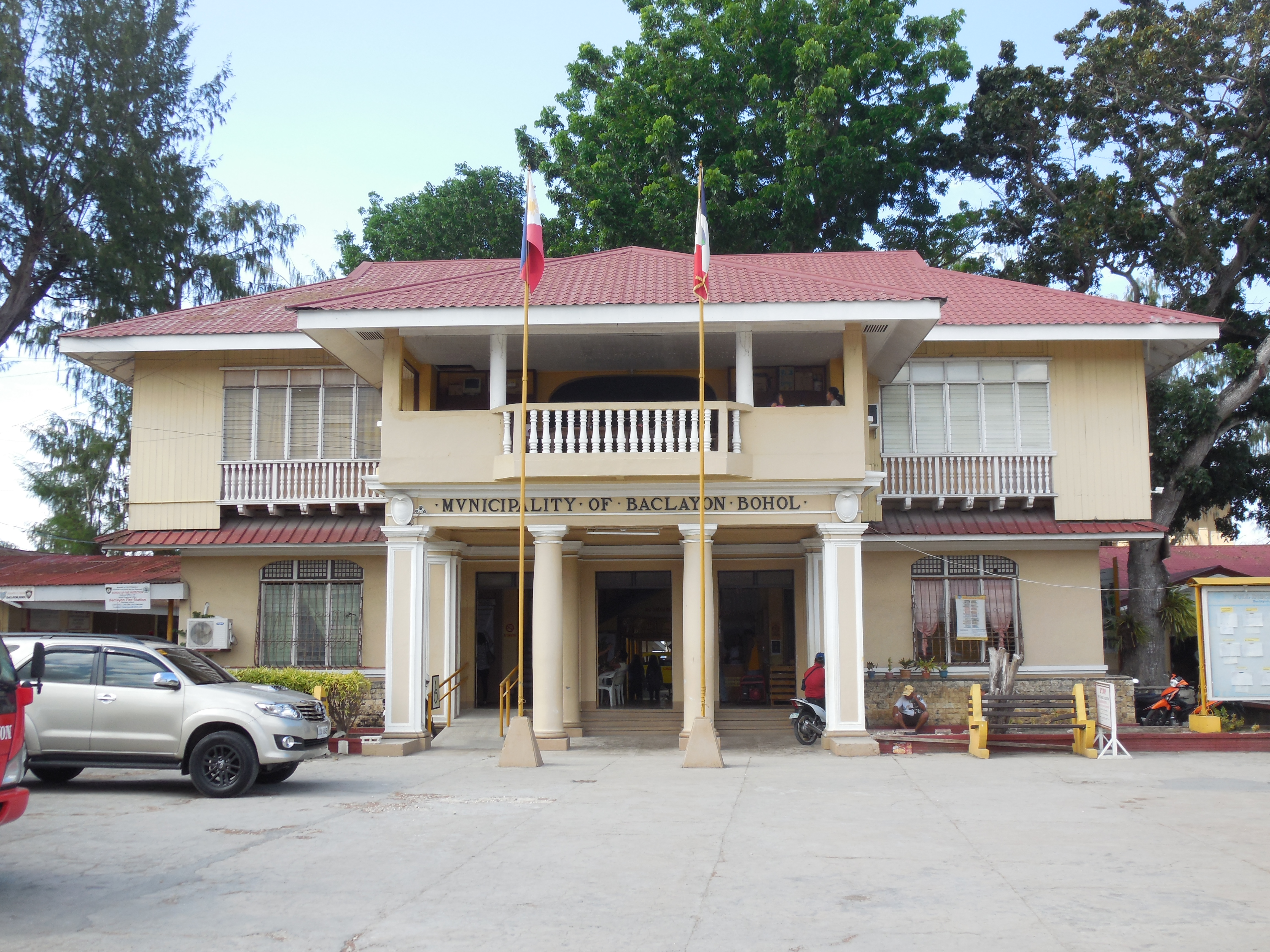 The municipal hall of Baclayon town in Bohol. Photo taken three years after the 2013 Bohol Earthquake.